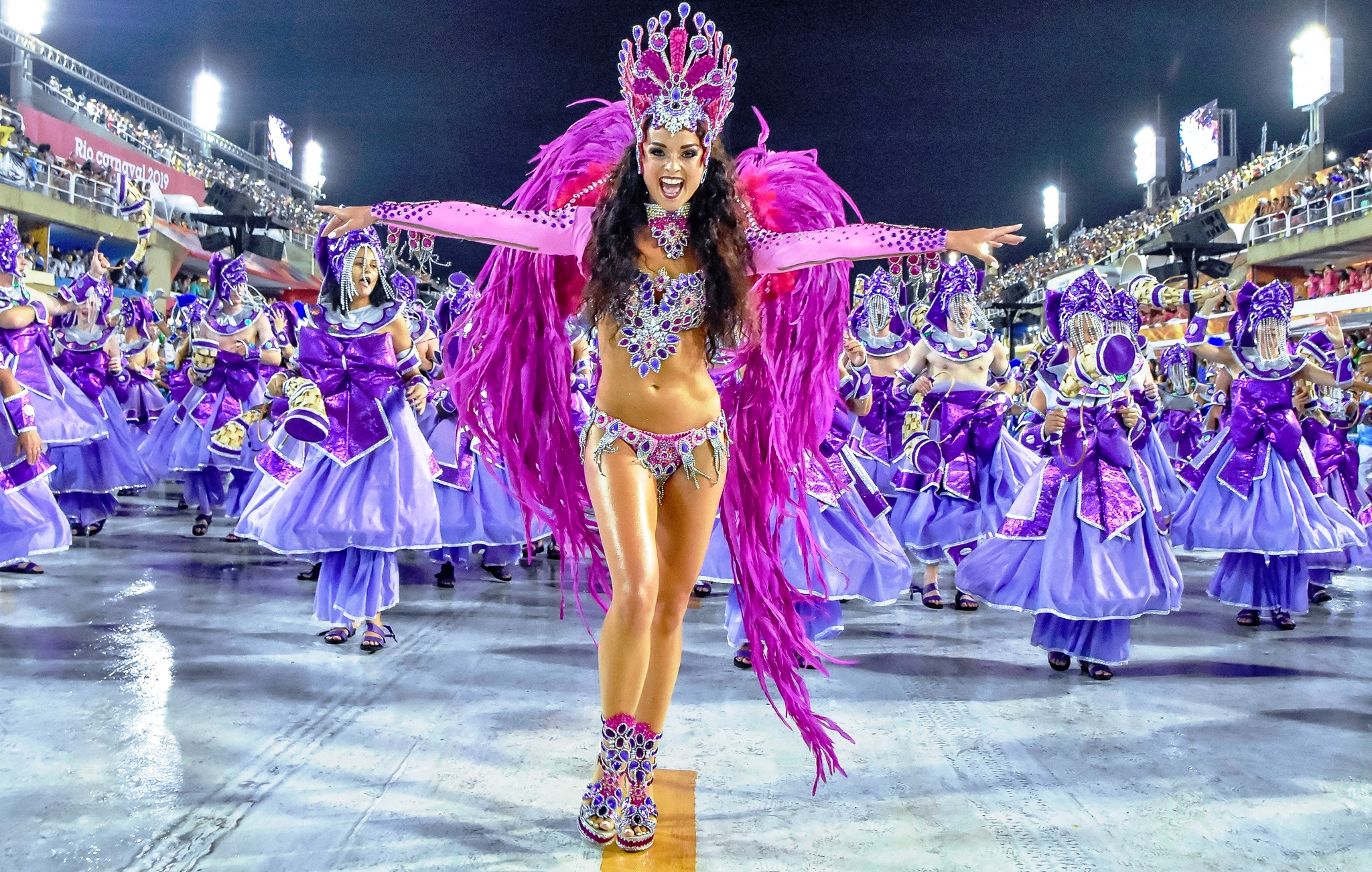 Kashira Carnival 2019 Rio de Janeiro Renascer de Jacarepagua